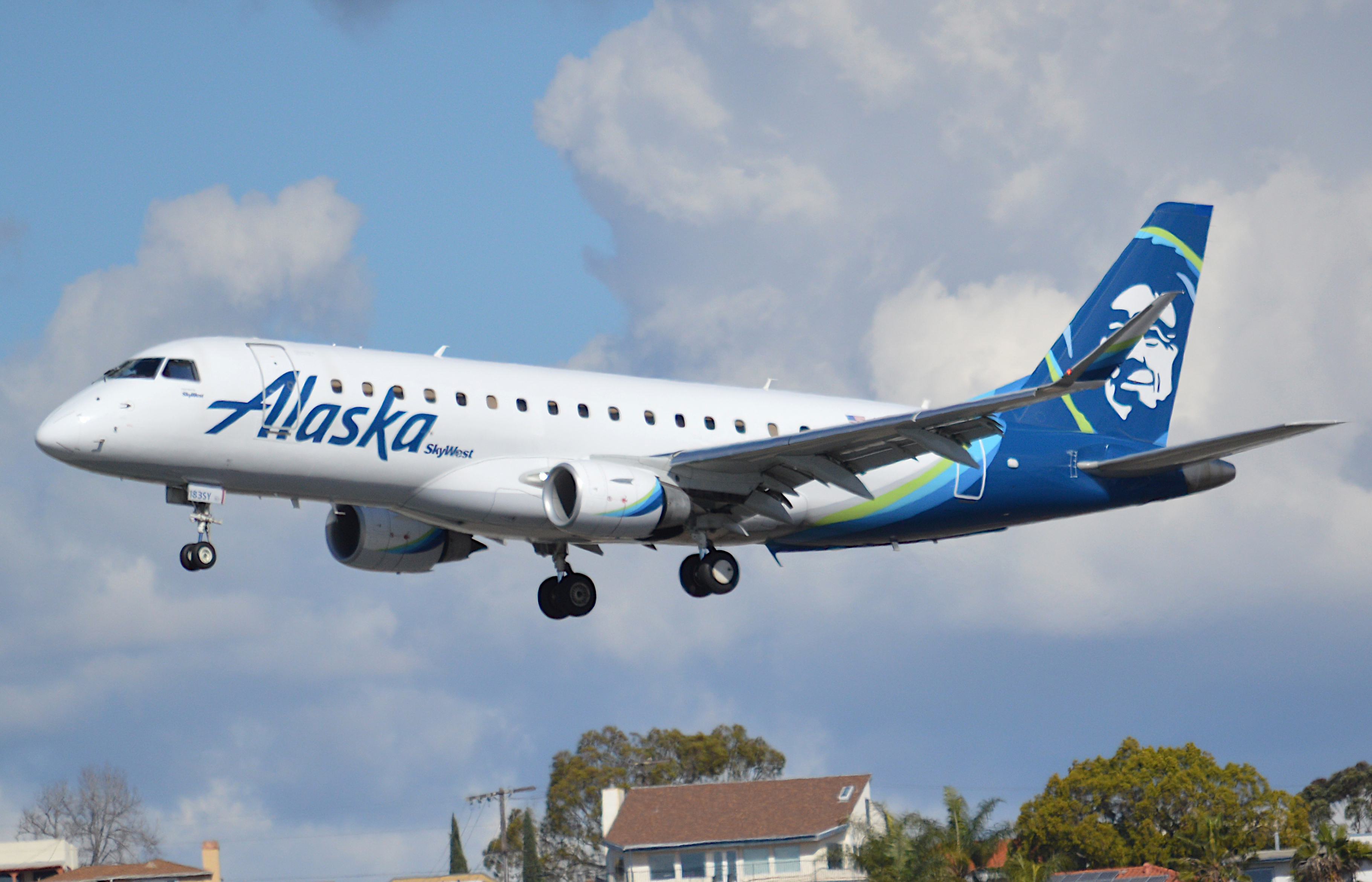 Alaska Airlines (operated by SkyWest) Embraer 175 N183SY landing on runway 27, San Diego International Airport, February 18, 2019.